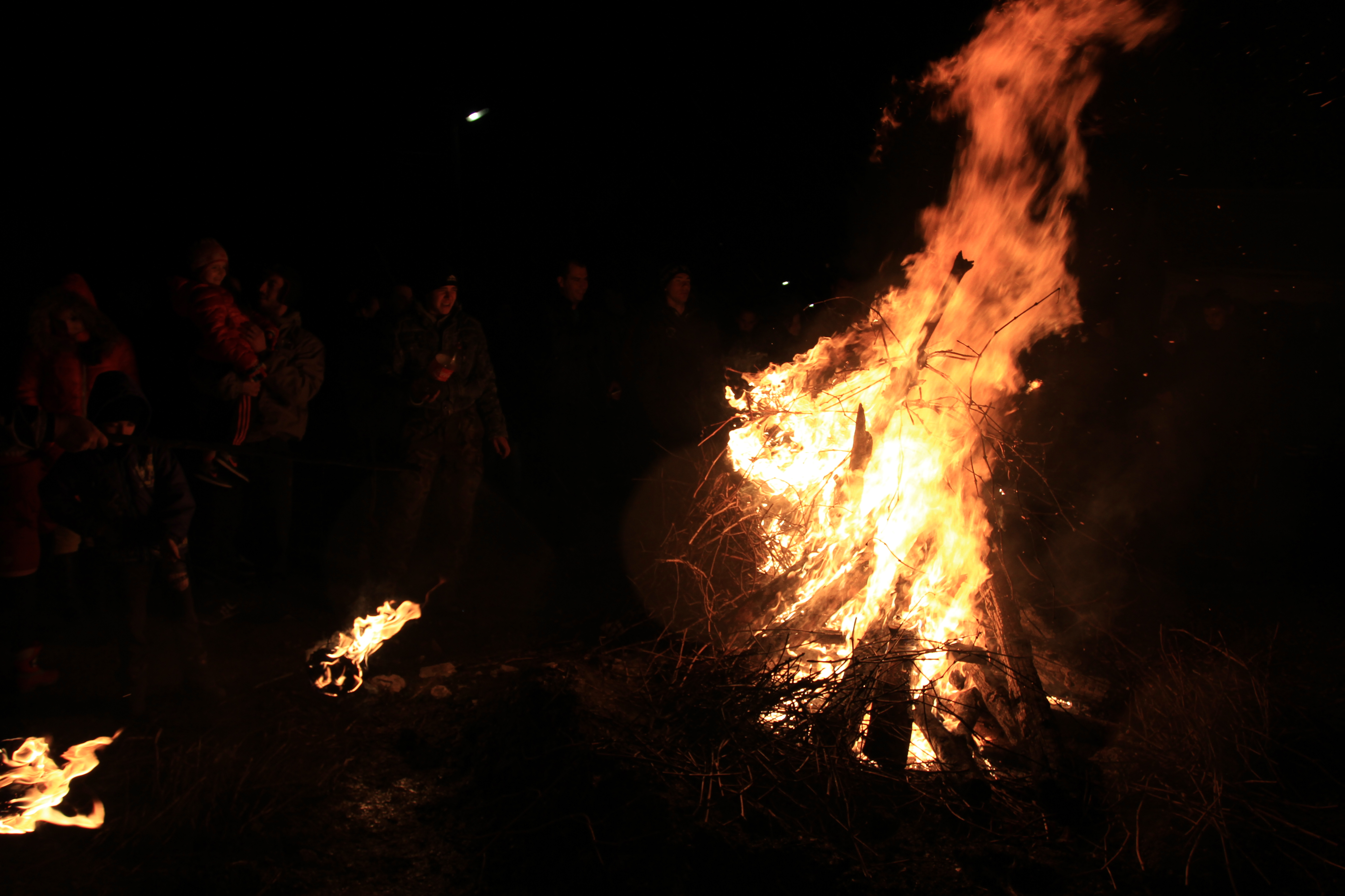 Orata kòpata - ancient custom of pagan times, nowadays performed in the evening of Sirni Zagovezni. This photo has been taken in the country: Bulgaria